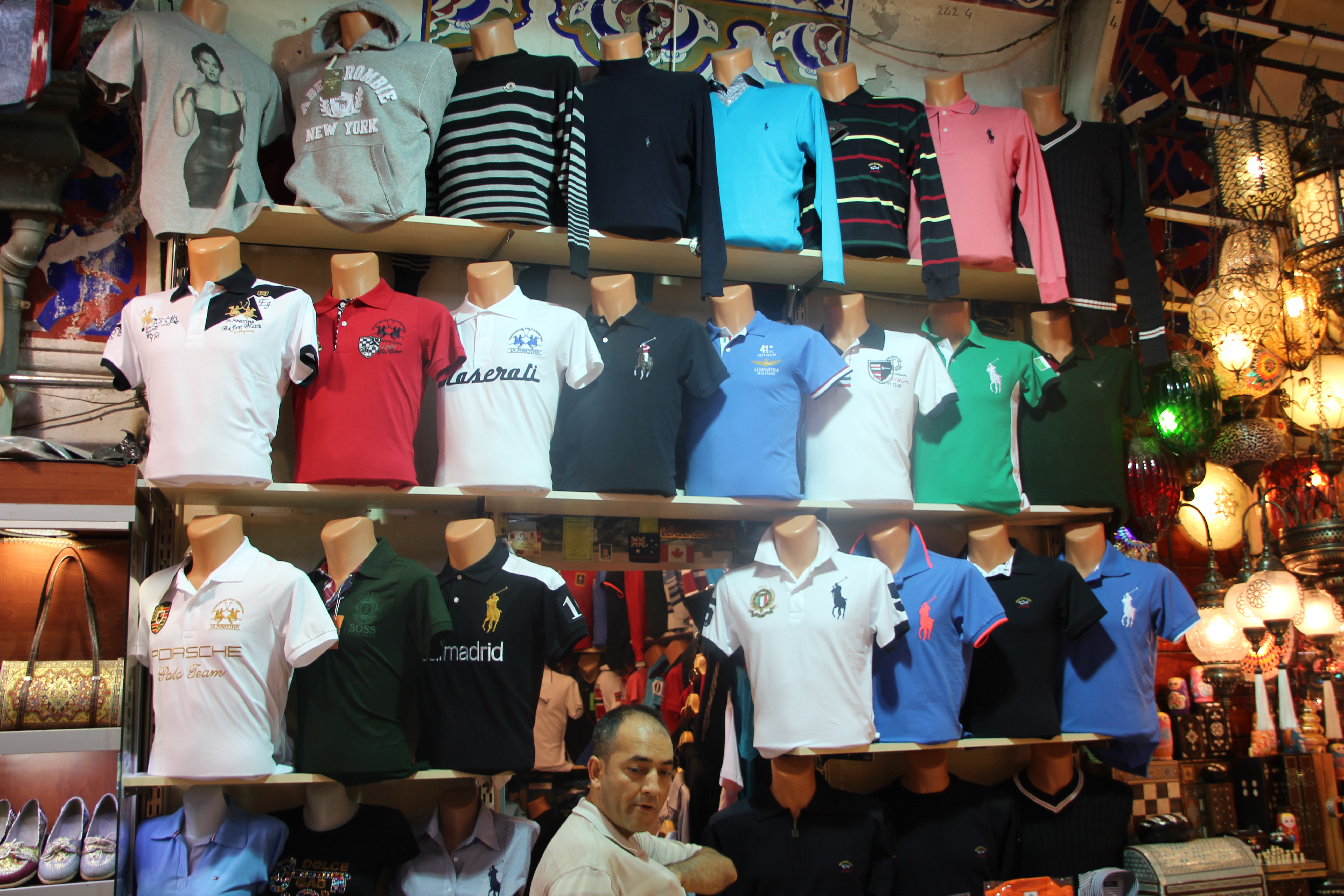 Apparent faked brand clothing in Istanbul.